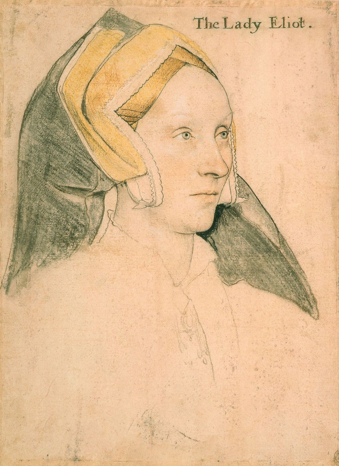 Margaret à Barow (c. 1500–1560) was part of the humanist circle around Sir Thomas More. Holbein made this study, along with that of the sitter's husband, Thomas (right), whom she married in about 1522, for matching paintings now lost. Both drawings are strongly reinforced with Indian ink around the heads and headgear, a technique absent in the portrait studies of Holbein's first English period. Dating from the earliest stage of his second period in England, which started in 1532, the drawings are unusually well preserved, down to the white chalk heightening Lady Elyot's nose and forehead.[1] The sitter wears a gable hood.[2] After her husband's death in 1546, Lady Elyot married Sir James Dyer, Chief Justice of the Court of Common Pleas.